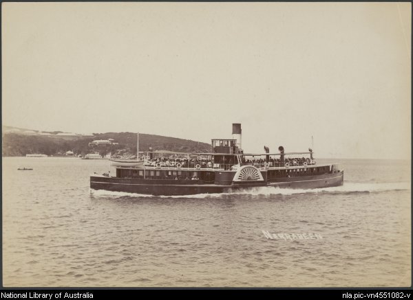 Passengers on-board the ferry Narrabeen, Australia